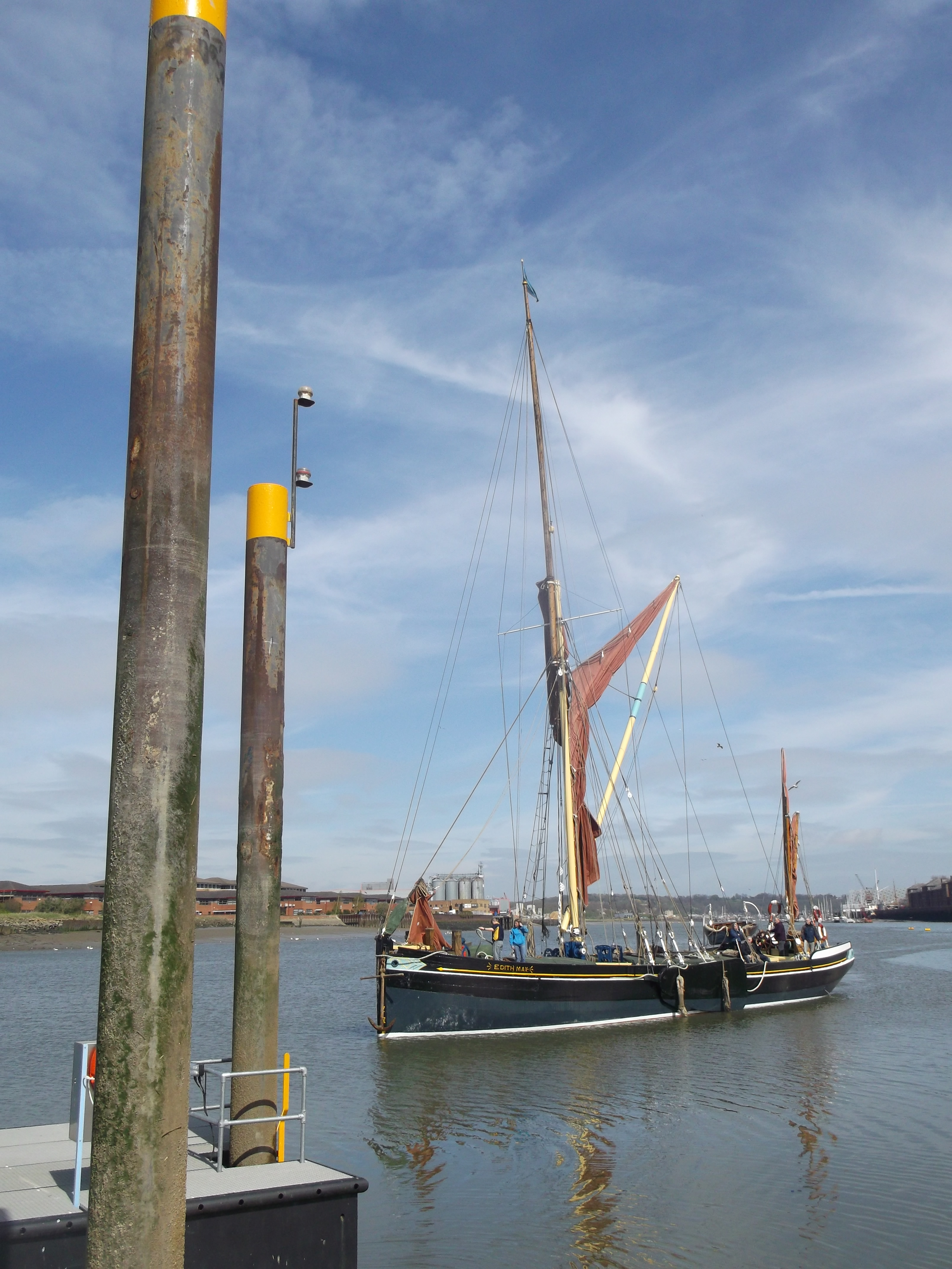 Edith May Thames Barge coming toward Sun Pier Chatham